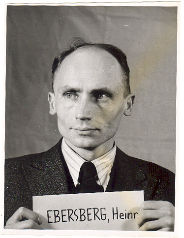 Heinrich Ebersberg (* 1911) at the Nuremberg Trials. Ebersberg was a German lawyer and civil servant. He served as deputy to Otto Georg Thierack, Minister of Justice. (Reichsjustizministerium) After the Second World War, Ebersberg was Ministerialrat in the West-German Bundesjustizministerium. This photograph of Ebersberg (probably as an interned witness) was taken by US Army photographers on behalf of the Office of the U.S. Chief of Counsel for the Prosecution of Axis Criminality (OUSCCPAC, May 1945 - Oct. 1946) or its successor organization, the Office of Chief of Counsel for War Crimes (OCCWC, Oct. 1946 - June 1949).